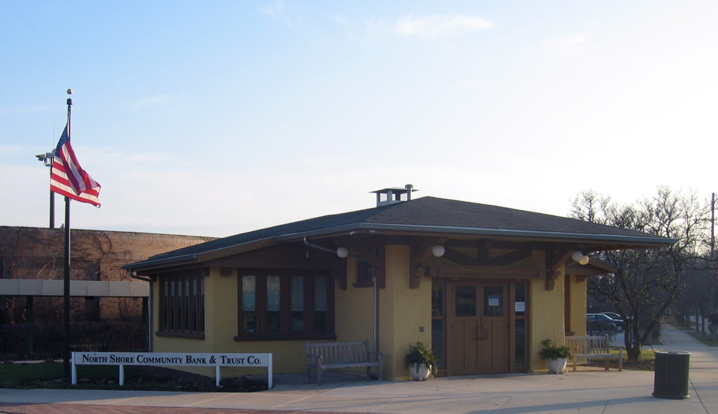 The original Linden station house. Designed by Arthur Gerber.